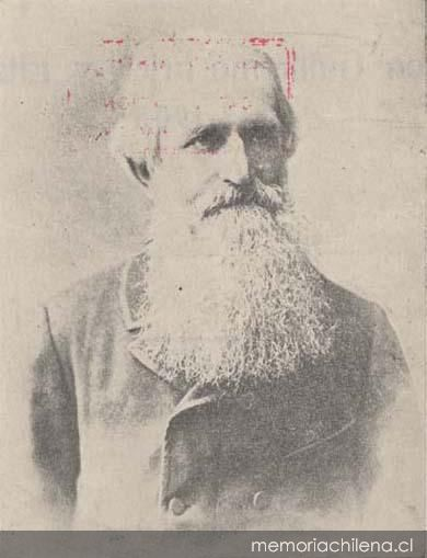 Wilhelm Frick Eltze (1813-1905)